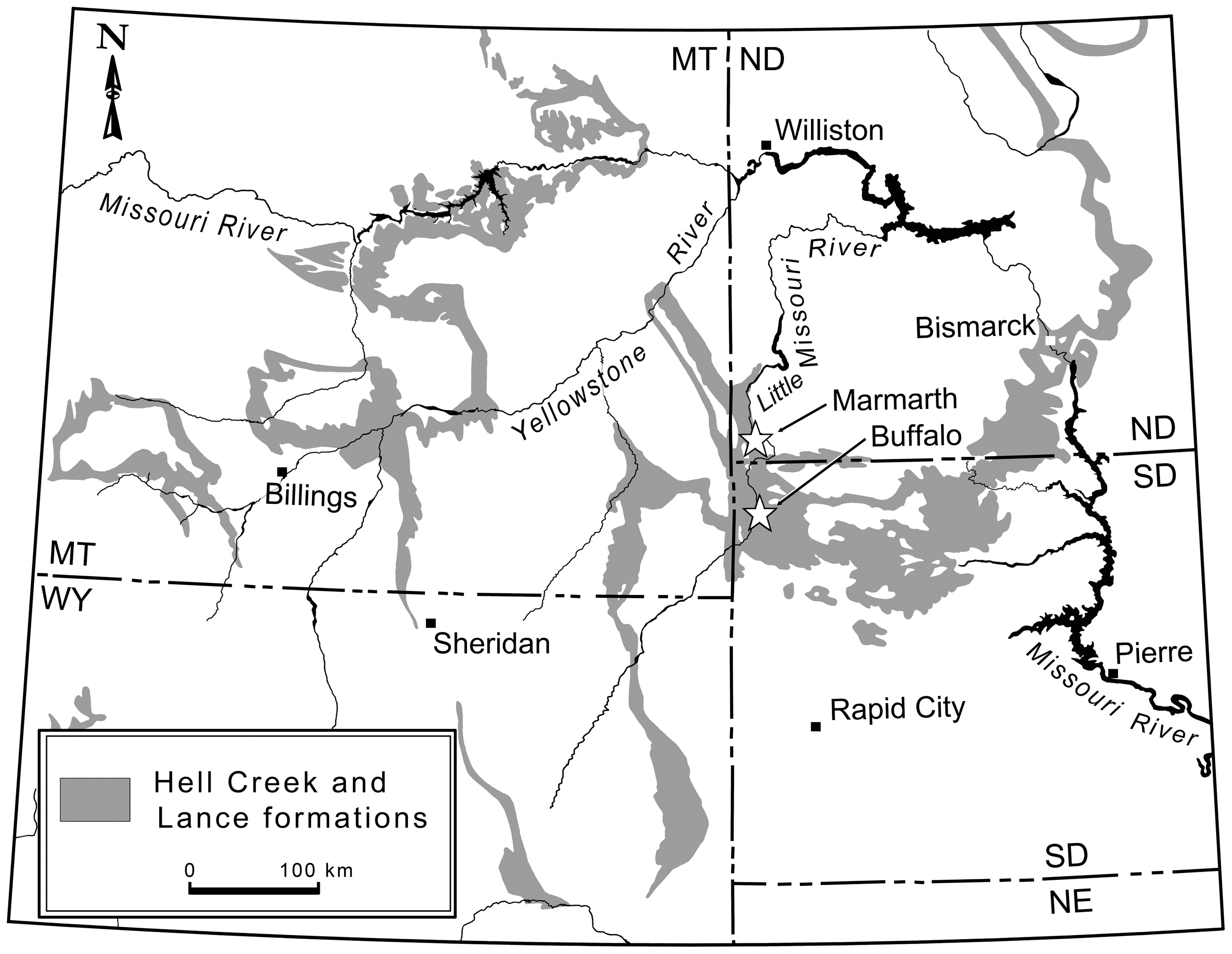 Exposures of the Upper Cretaceous Hell Creek and Lance formations in western North America. Localities that have yielded specimens of Anzu wyliei are marked by white stars. Scale bar = 100 km.